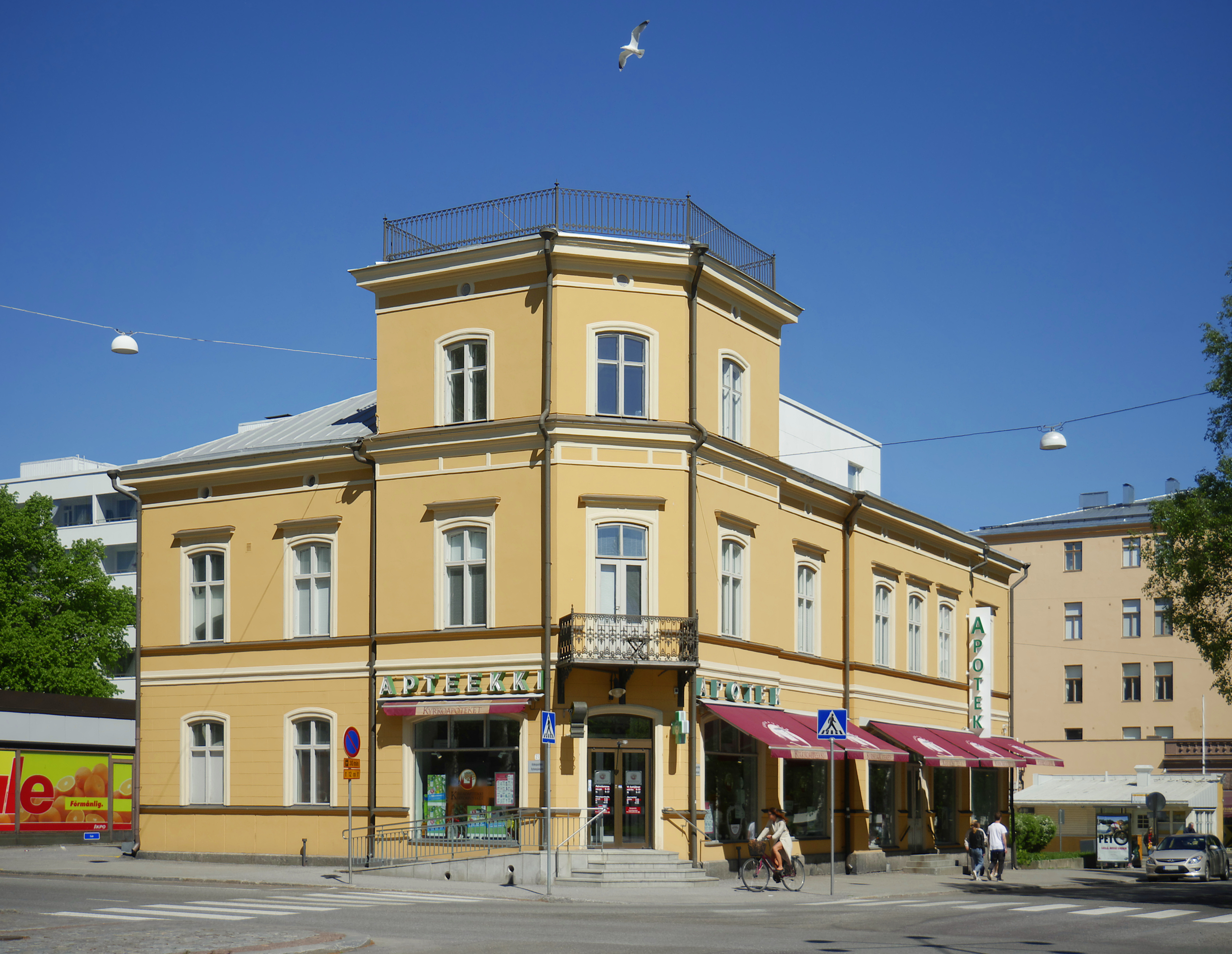 Pharmacy in Vaasa, Finland.